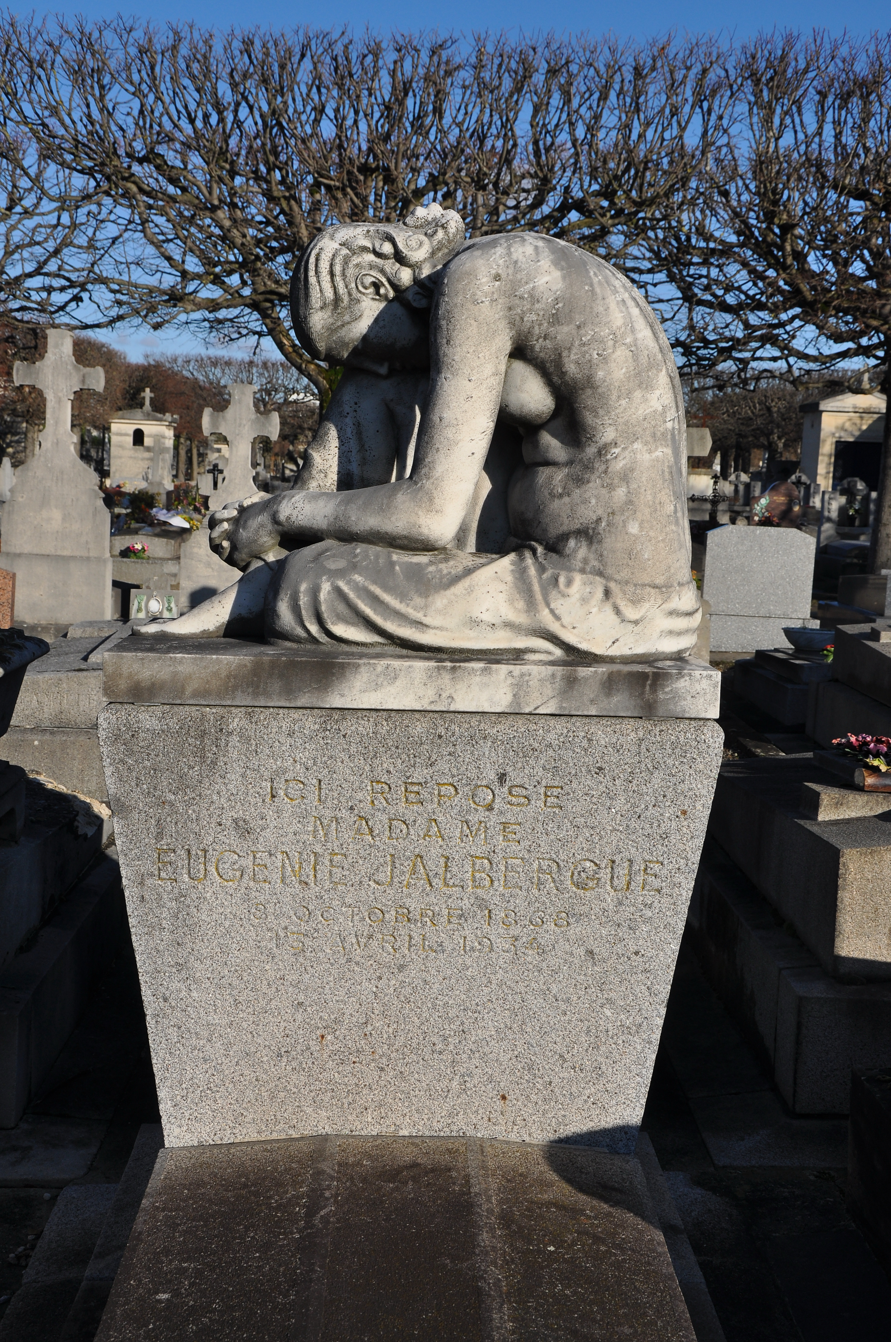 Marble sculpture of mourner crowning the stele of Mrs Jalbergue's grave in the Former Cemetery of Rueil-Malmaison in the department of Hauts-de-Seine France. The work of Paul Hamann at 1932.